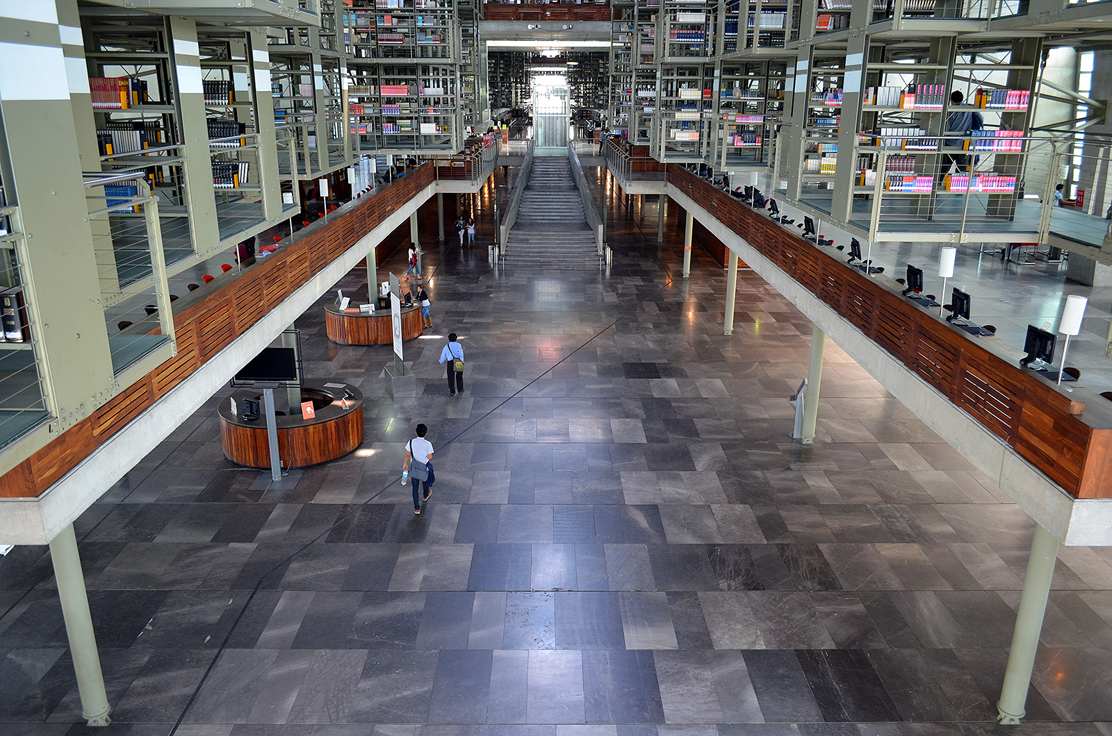 The library is located in downtown Delegación Cuauhtémoc at the Buenavista train station where the metro, suburban train, and metrobus meet. It is adorned by several sculptures by Mexican artists, including Gabriel Orozco's Ballena (Whale), prominently located at the centre of the building.